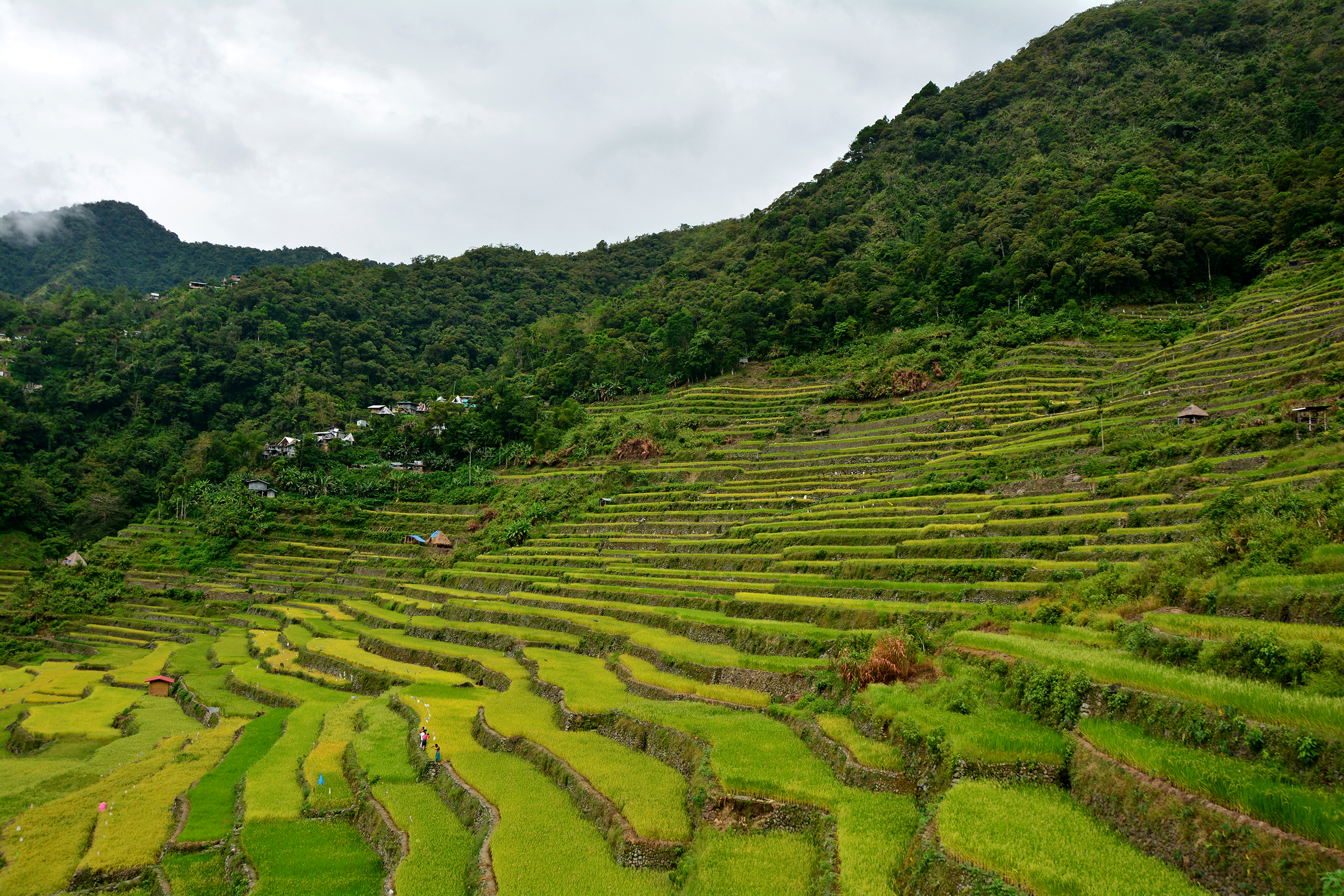 The beauty of the Batad Rice Terraces...